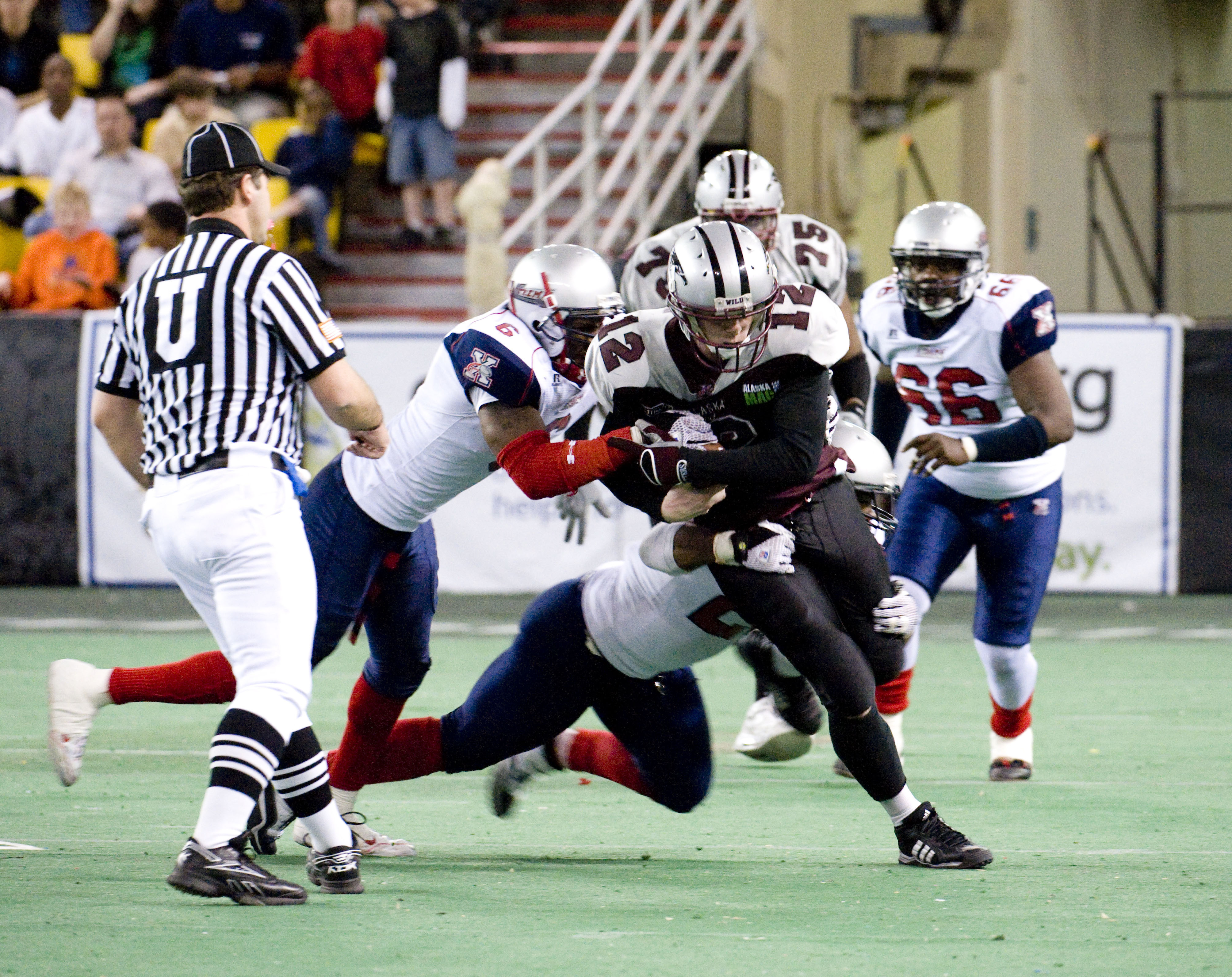 Staff Sgt. Earl Mason pushes through Bloomington Extreme players with the football in hand May 4, 2009. Mason is the non-commission officer in charge of emergency management of logistics from the 3rd Civil Engineer Squadron and he also playsfor the Alaska Wild, an indoor professional football team. VIRIN: 090504-F-3108S-003